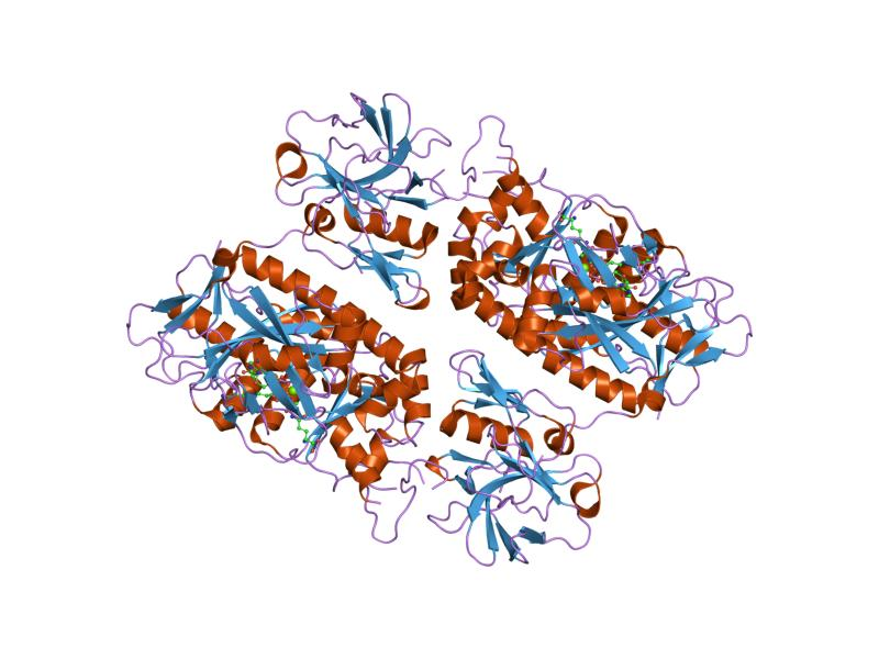 Cartoon representation of the molecular structure of protein registered with 2ioa code.